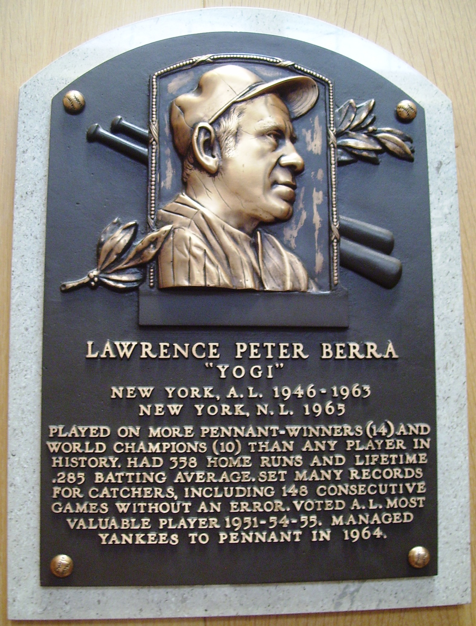 Yogi Berra's Baseball Hall of Fame Plaque. Taken by me. --(Review Me) R ParlateContribs@ (Let's Go Yankees!) 19:19, 22 July 2007 (UTC) 19:19, 22 July 2007 . . R . . 1,744×2,246 (1.22 MB)